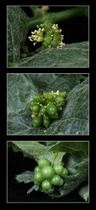 Picture of pixie berries